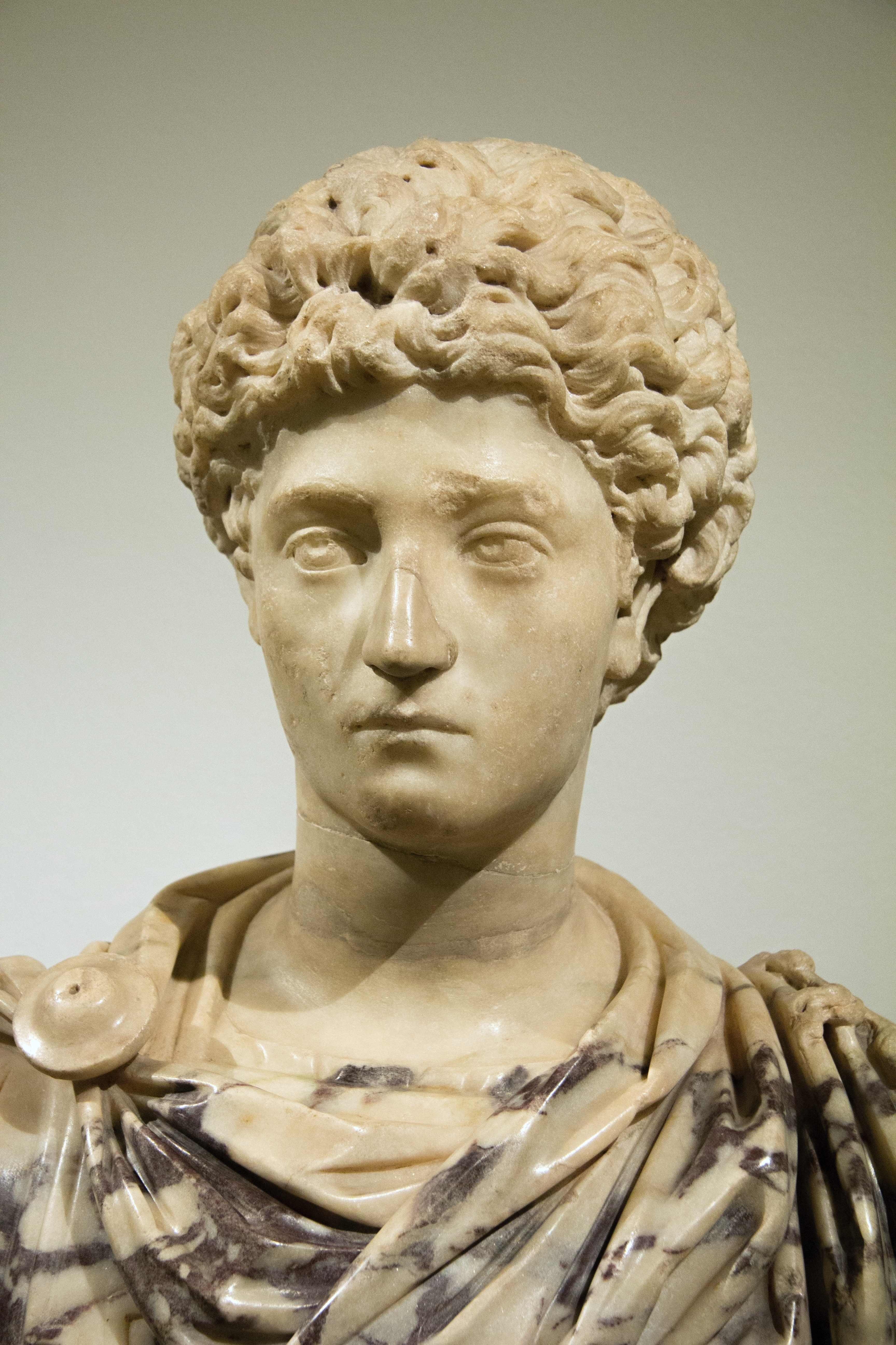 Portrait of thr young Marcus Aurelius on a modern bust. Marble, 150 - 200 AD. NG Prague, Kinský Palace, NM H10 4780.